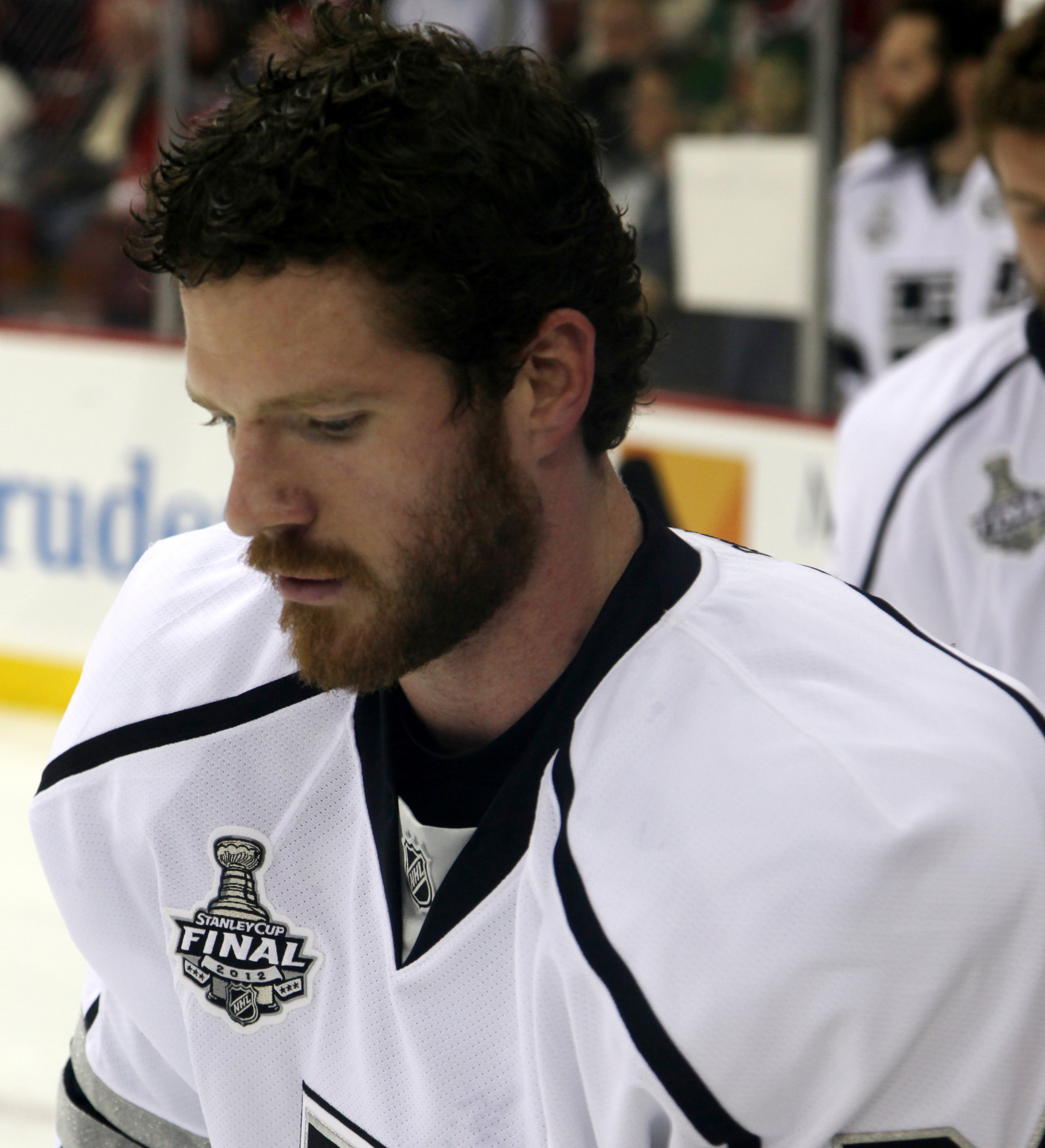 Fraser in 2012, during the Stanley Cup Finals.